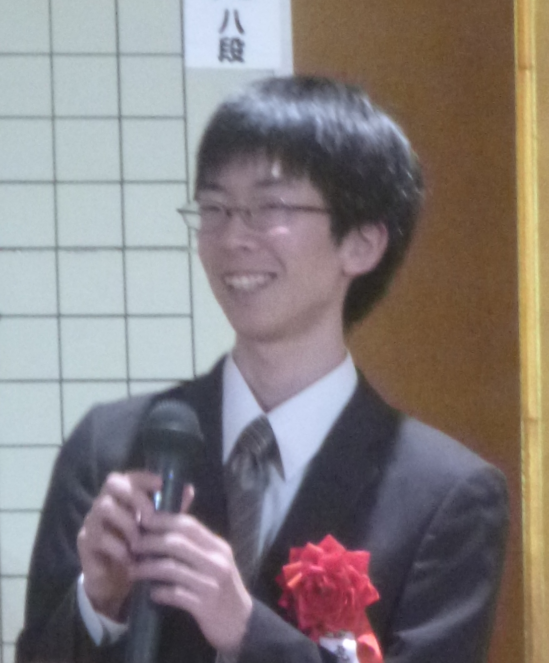 Japanese go player Toramaru Shibano greeting to the audience before the exhibition match of Hankyū Nōryō Go Festival in Minato, Tokyo, Japan.